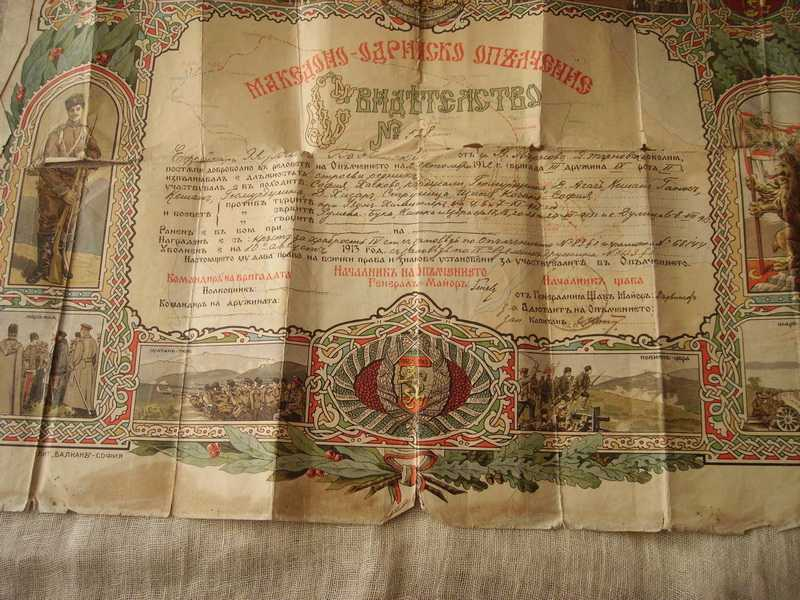 Certificate for service in the Macedonian-Adrianopolitan Volunteer Corps of Yordan Gabenski from Tarnovo.